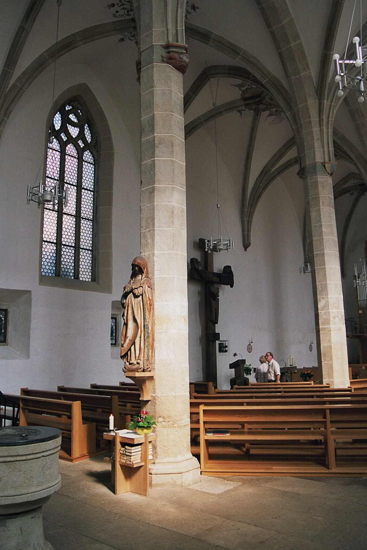 Pirna: Dolorous Madonna (around 1520) inside the minster "St. Heinrich".